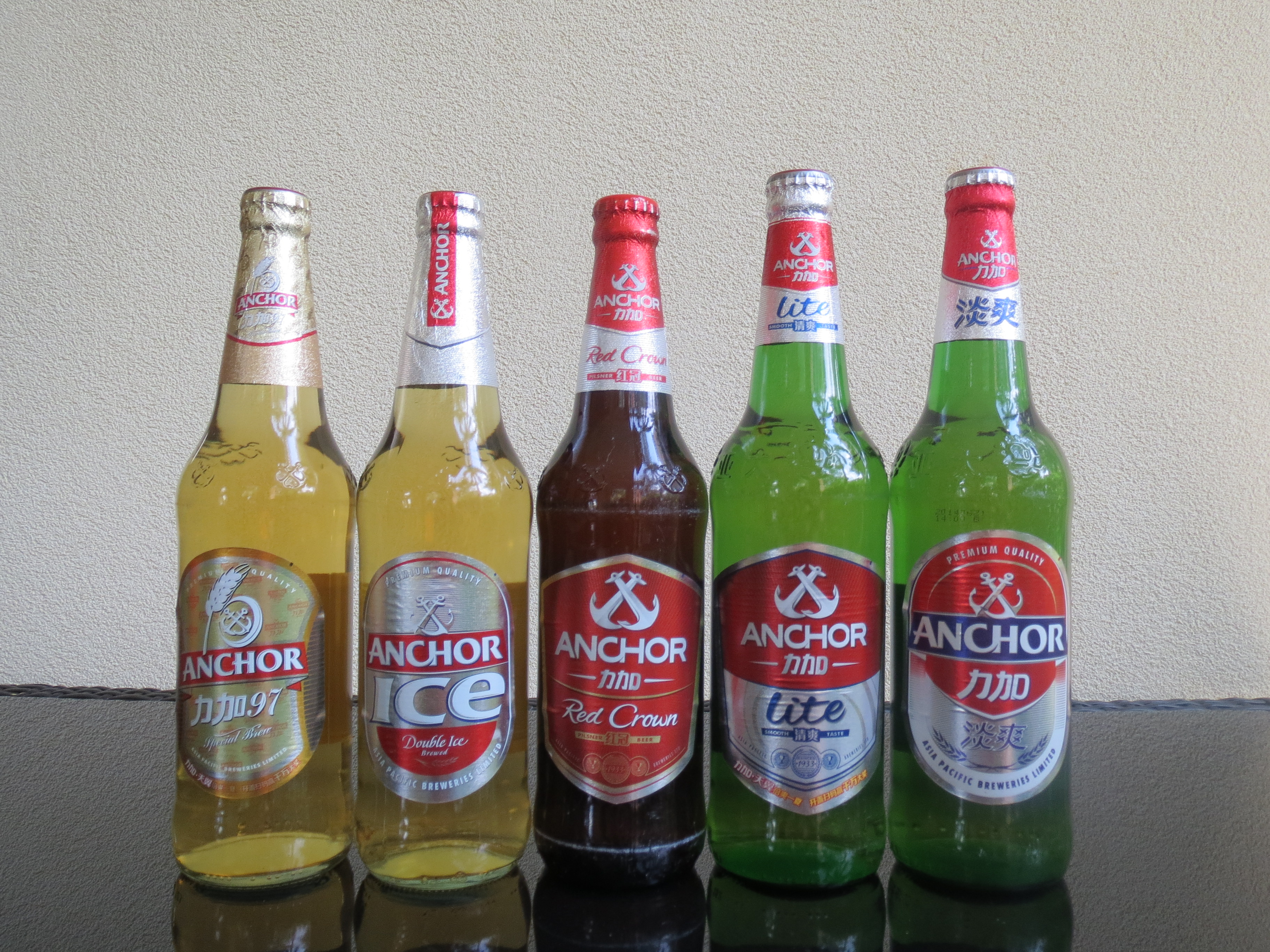 5 types of Anchor Beer Hainan China August 2014